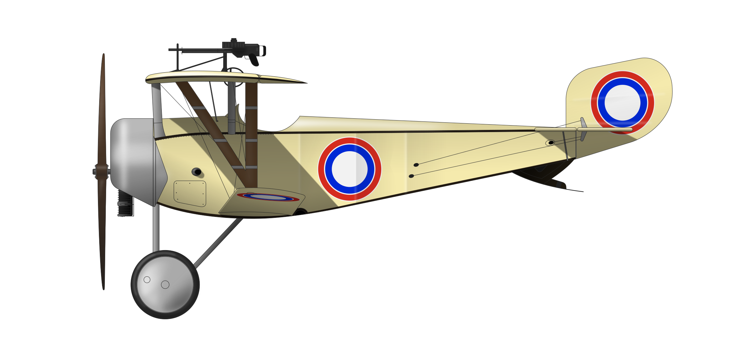 Poruchik Ivan Loiko's Nieuport 11. 9th AOI (Aviatsionniy Otryad Istrebitelei), Romania, December 1916. The source for the color scheme is Harry Dempsey's drawing in Viktor Kulikov, Russian Aces of World War 1, Osprey Publishing 2013, p. 38.